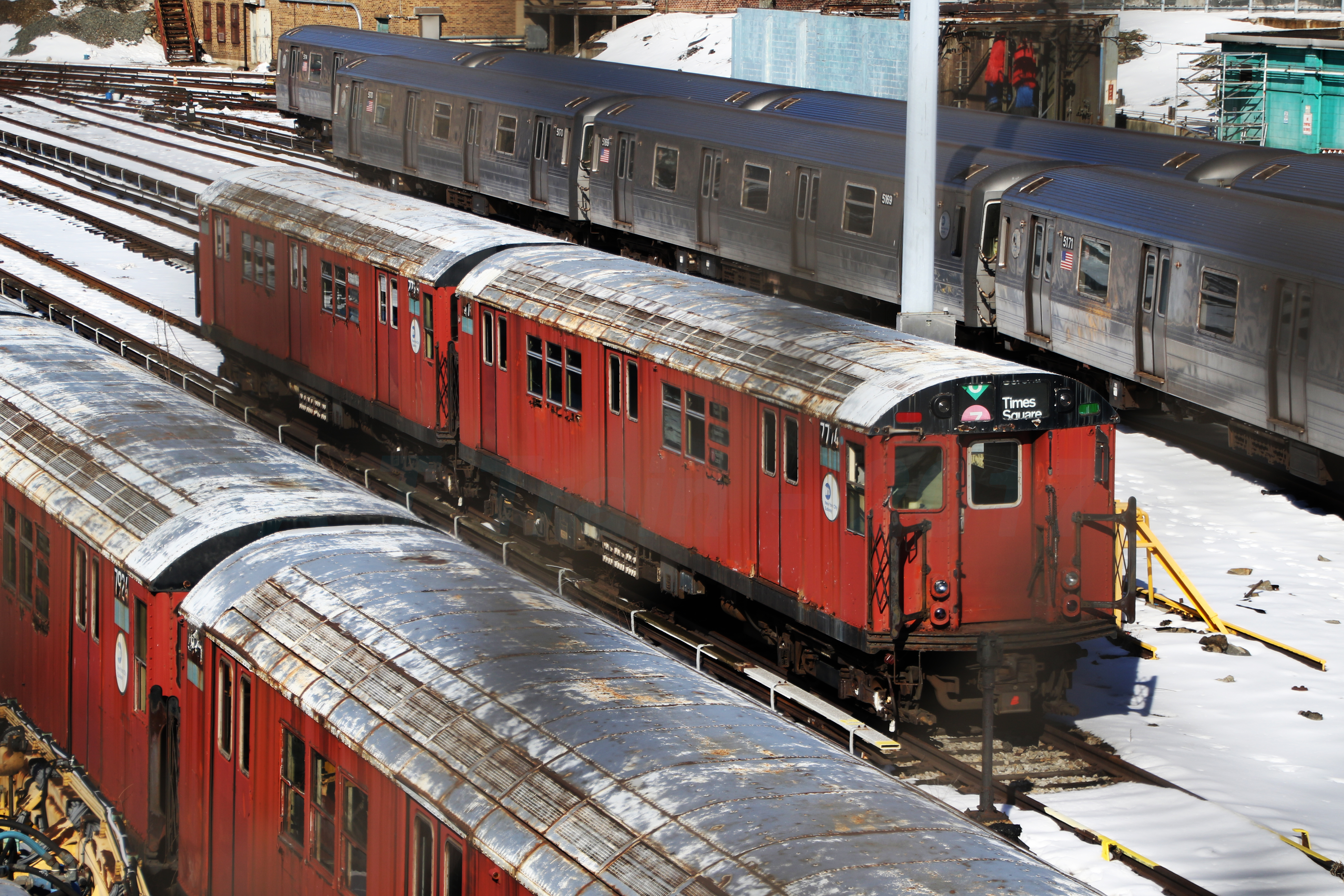 MTA NYC Subway ACF R26 cars 7774-7775 stored at the Concourse Yard.